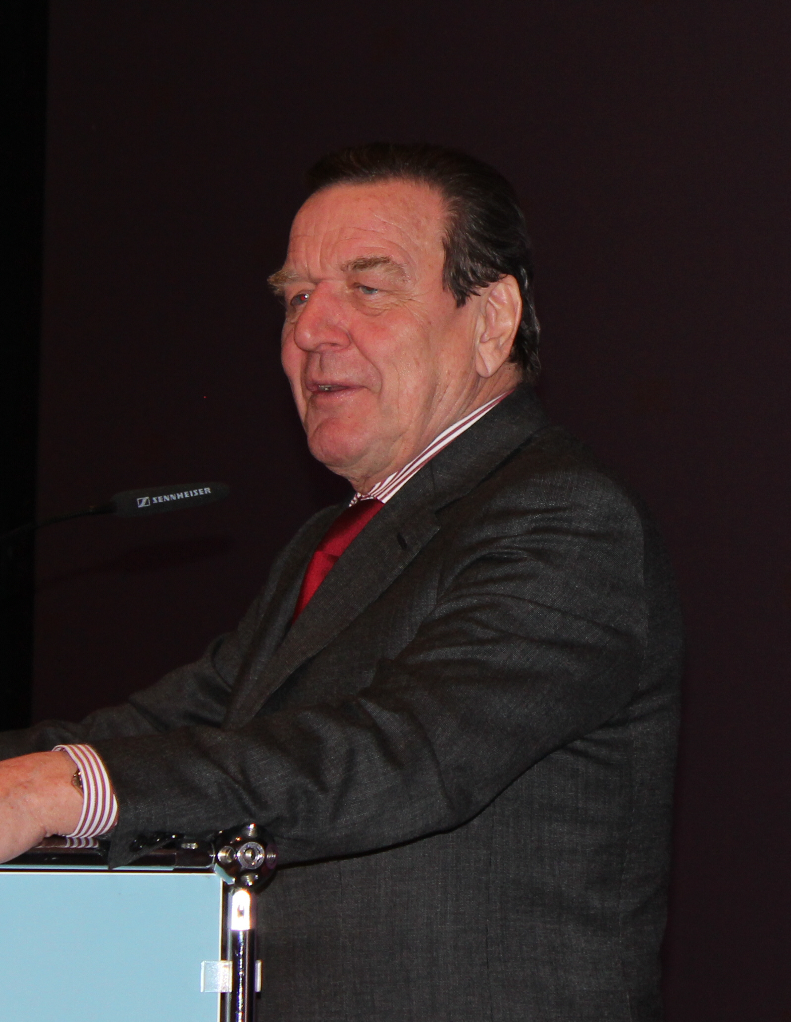 Gerhard Schröder 2013 in Wittmund